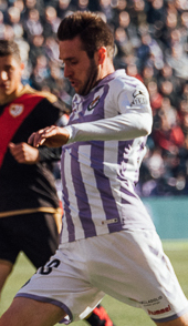 Real Valladolid - Rayo Vallecano, 18th fixture of the 2018-19 La Liga, January 5, 2019.